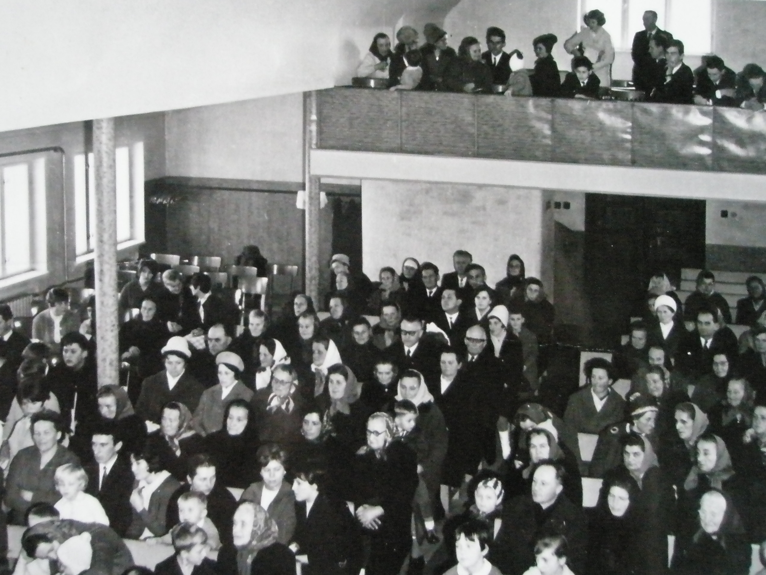 Chapel of resolute Christians (Stanowczy Chrześcijanie) in Nebory